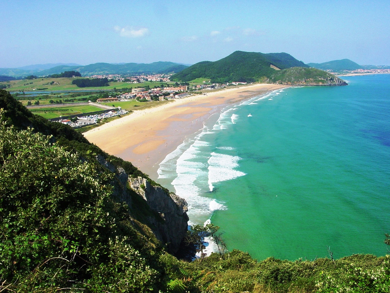 Berria beach (Cantabria, Spain). Color balance from the original picture.